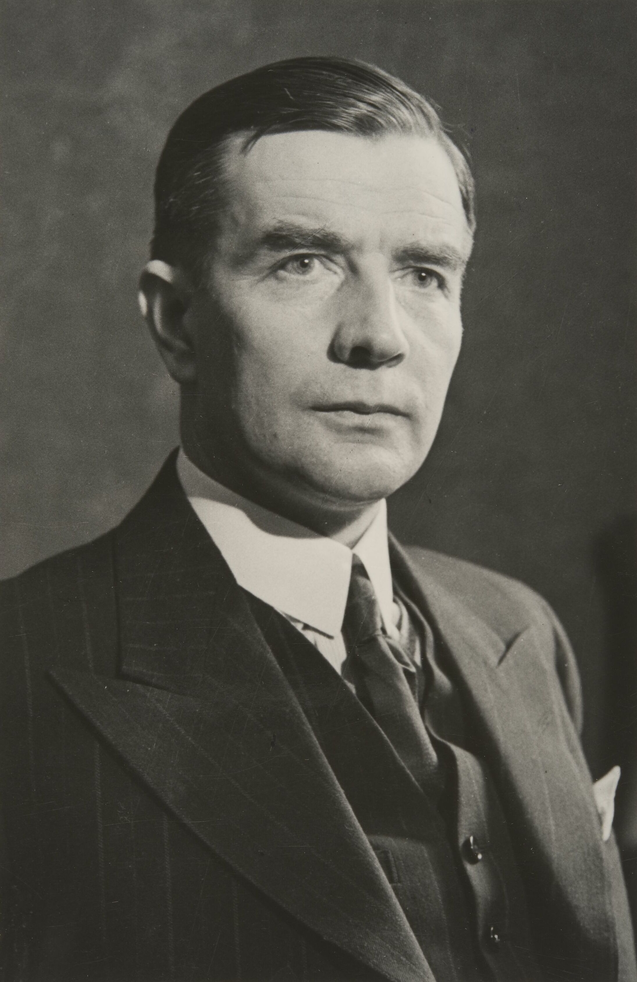 Photograph of the Finnish politician Uuno Takki (1901–1968).